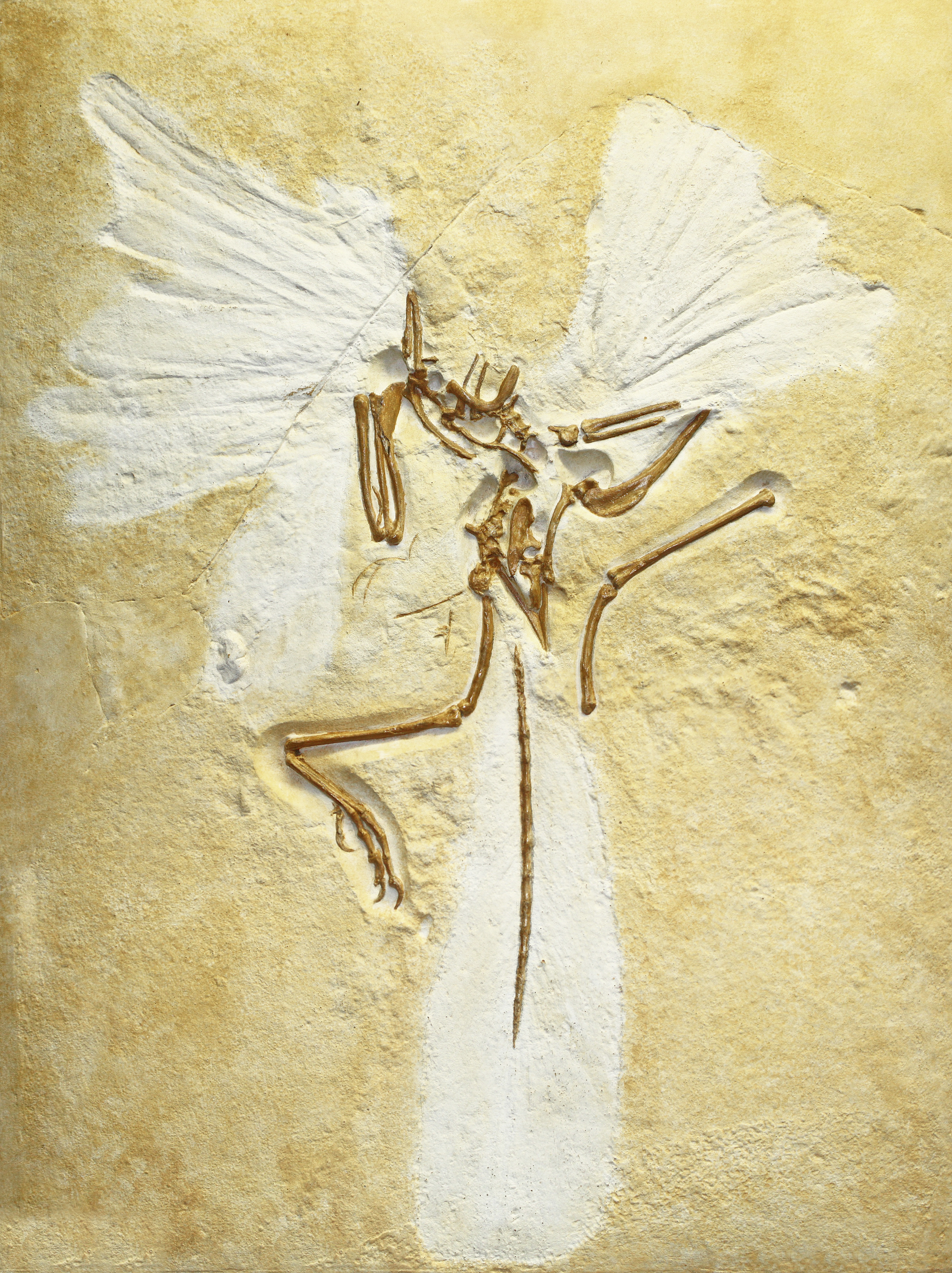 Archaeopteryx lithographica, Archaeopterygidae, Replica of the London specimen; Staatliches Museum für Naturkunde Karlsruhe, Germany.